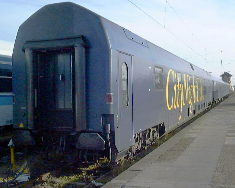 CityNightLine train at Dresden's main station